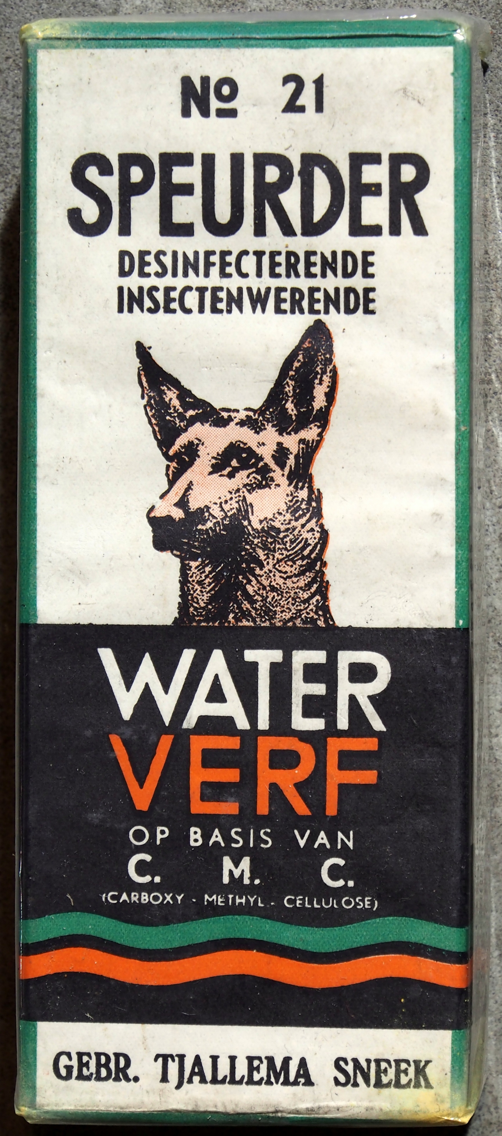 Old product/brand of a Dutch company that does not exist anymore.